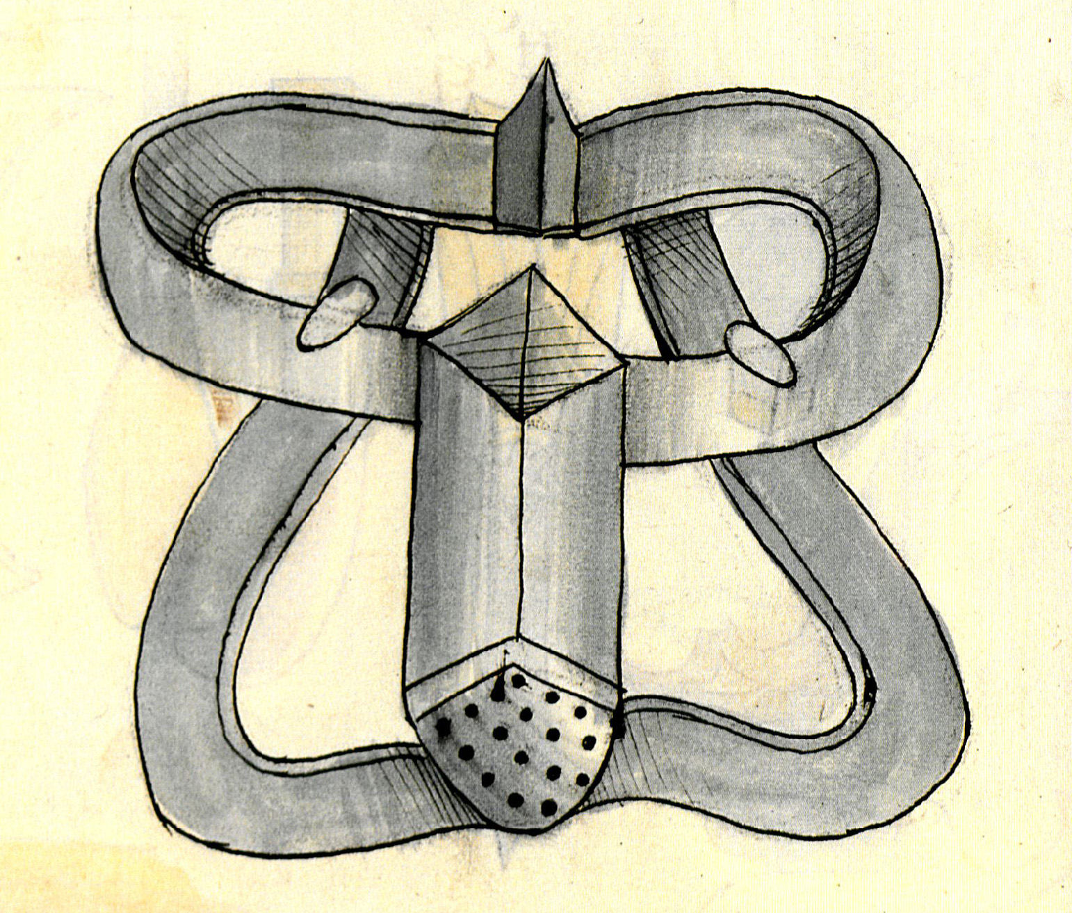 A sketch of a rather cumbersome-looking chastity belt in a 15th century manuscript of "Bellifortis", a late 14th-century book on military technology by retired soldier Kyeser von Eichstadt (born 1366). For discussion, see The Girdle of Chastity: A Medico-Historical Study by Eric John Dingwall. Original Latin description: Florentiniarum hoc bracile dominarium, ferreum et durum, ab antea sic reseratum